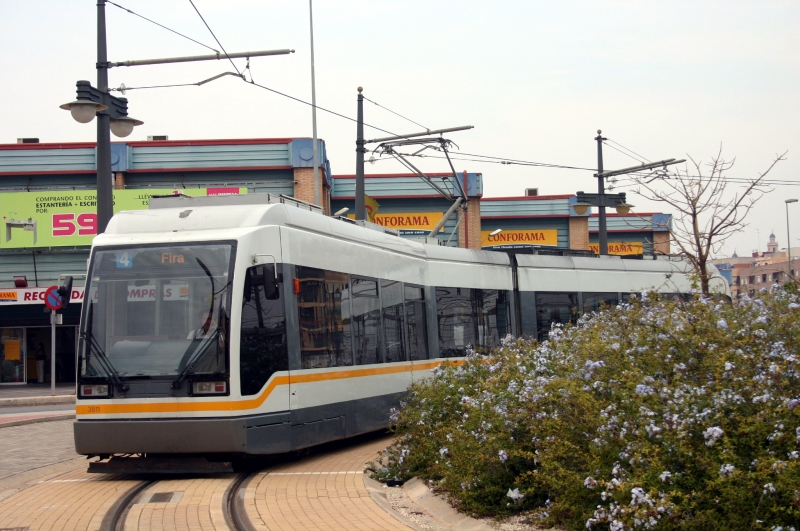 Tram series Siemens-Düwag UT-3800 of Line 4 (Valencia Metro) of Ferrocarrils de la Generalitat Valenciana (FGV)